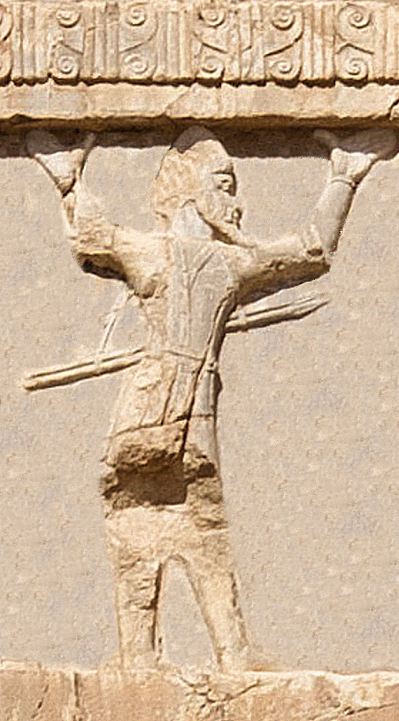 Xerxes I tomb Skudrian soldier circa 470 BCE (cleaned up)